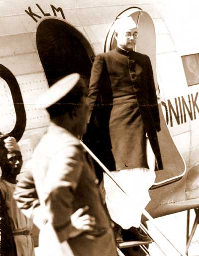 A newly elect president of the Indian National Congress, Subhas Chandra Bose, arrives at Calcutta's Dum Dum aerodrome after an eventful European tour.